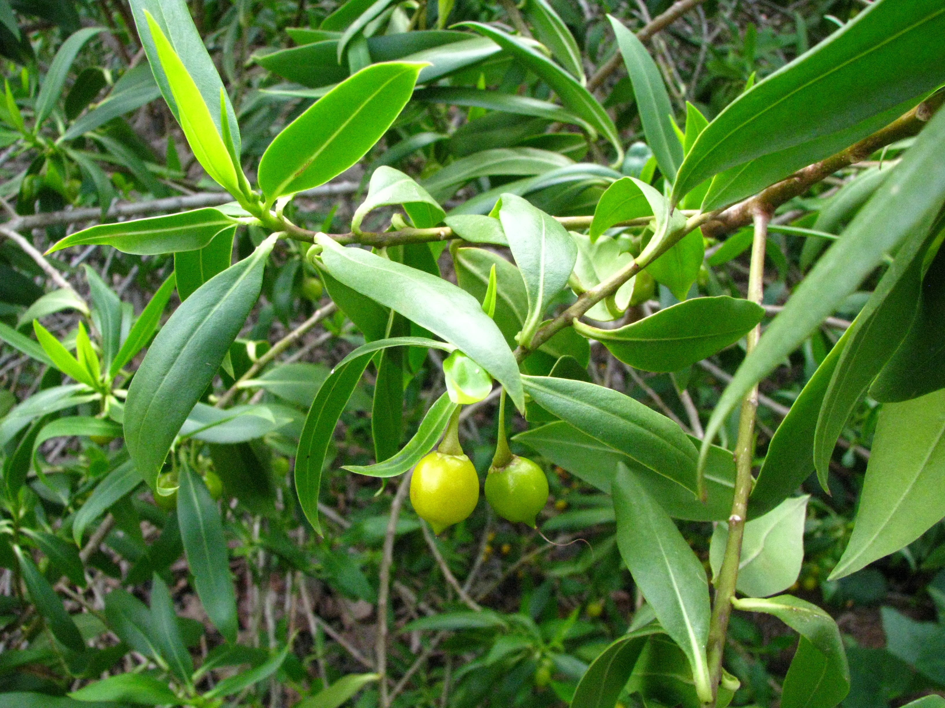 White alling or Sea olive Myoporaceae/Scrophulariaceae Native to the Bahamas, the Greater and Lesser Antilles, Aruba, Curaçao, Trinidad, Venezuela, and Guyana. Introduced into Florida. This plant: Oʻahu, Hawaiian Islands (Cultivated)